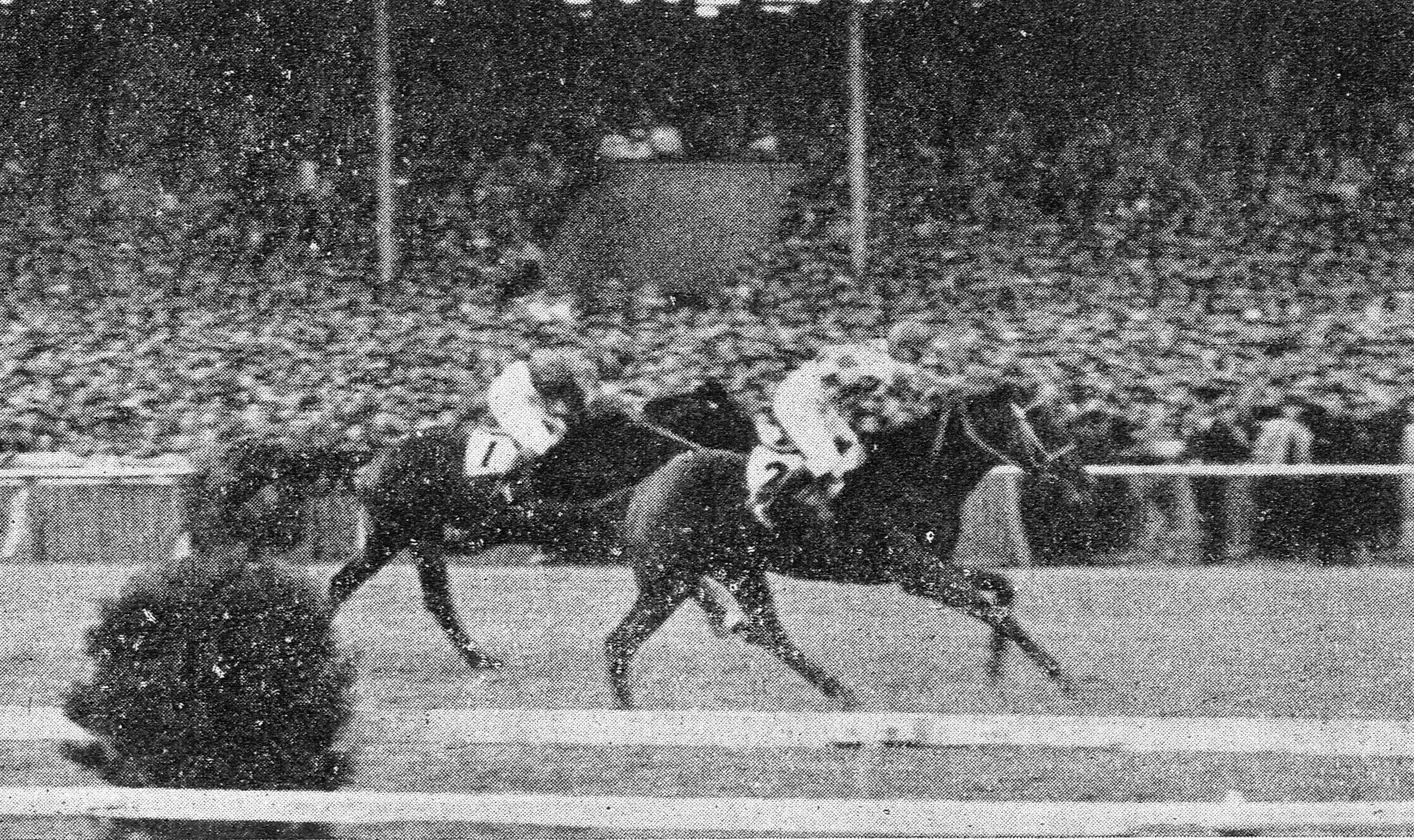 Nakayama Daishogai Autumn(1955)